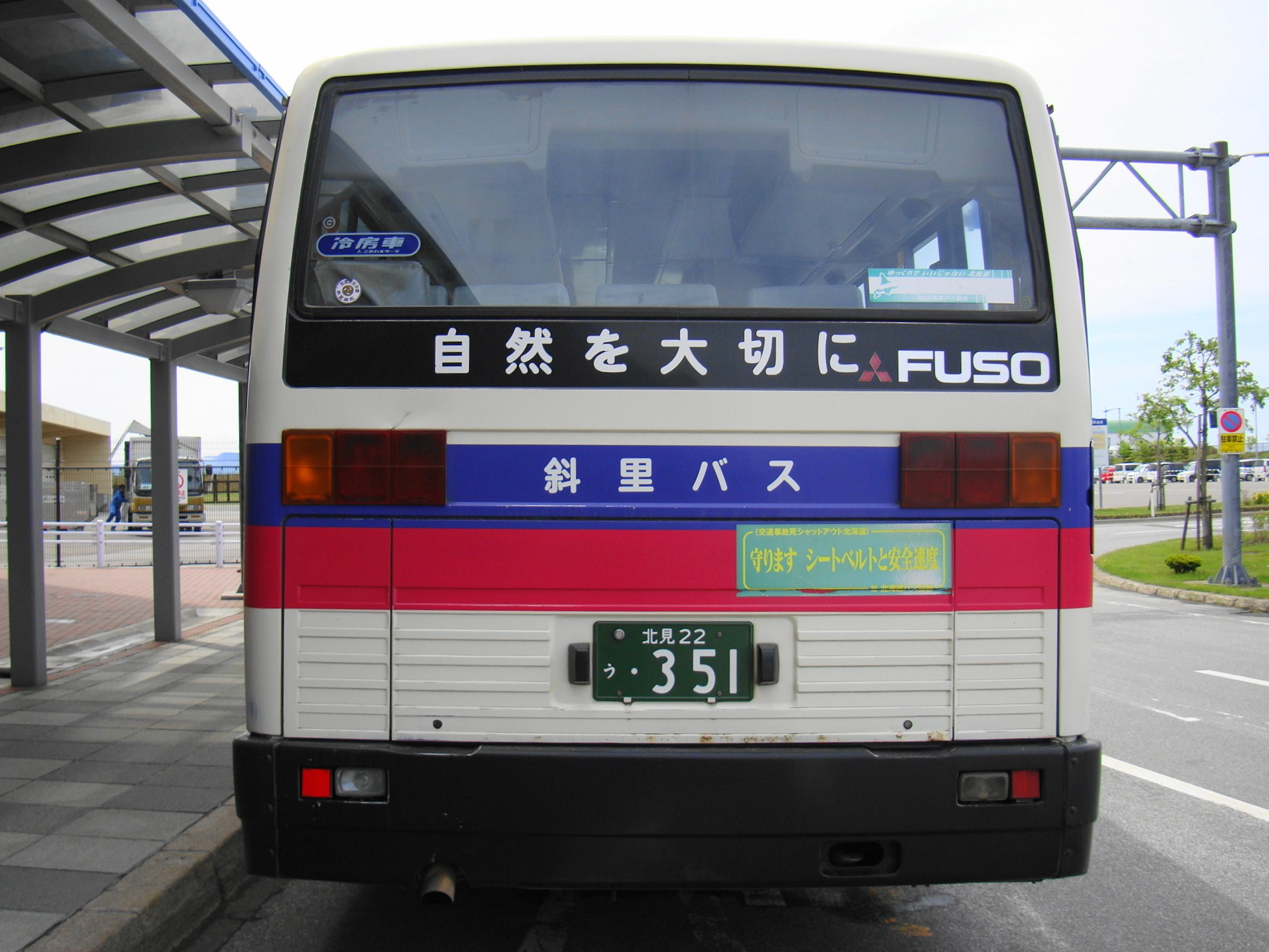 Painted "nature to carefully(自然を大切に)" Shari Bus all cars.